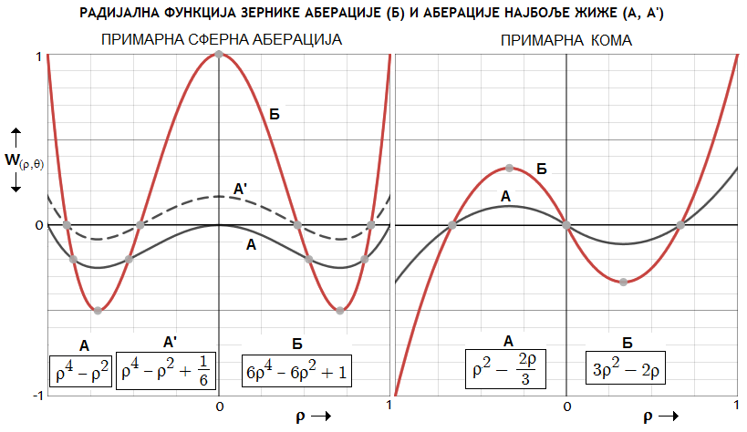 РАДИЈАЛНА ФУНКЦИЈА ЗЕРНИКЕ АБЕРАЦИЈЕ И АБЕРАЦИЈЕ НАЈБОЉЕ ЖИЖЕ